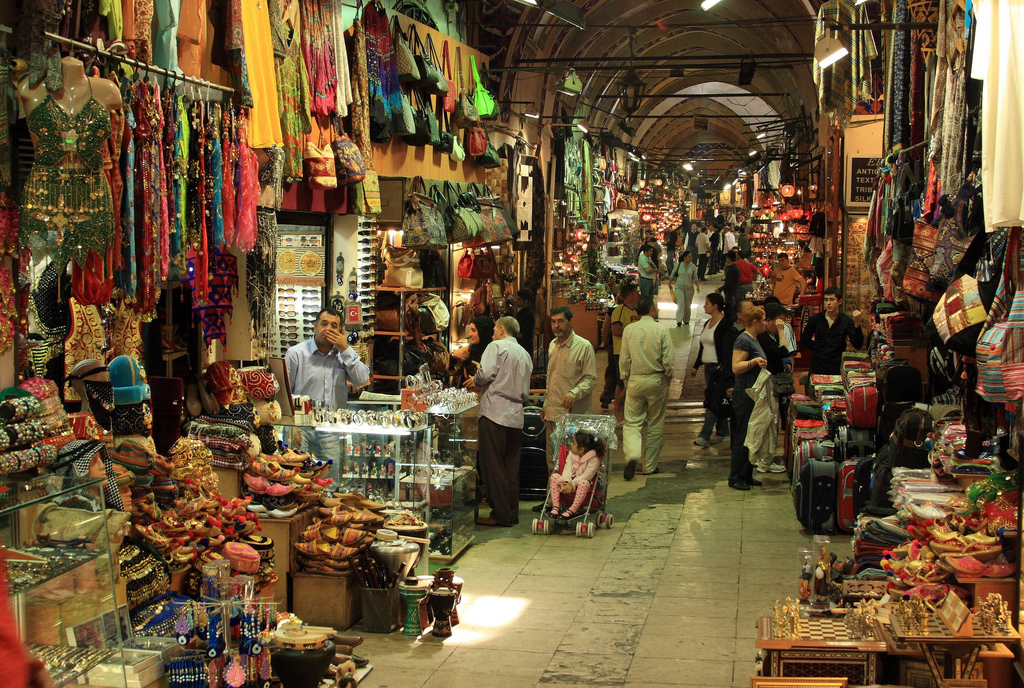 Store inside Istanbul's Grand Bazaar